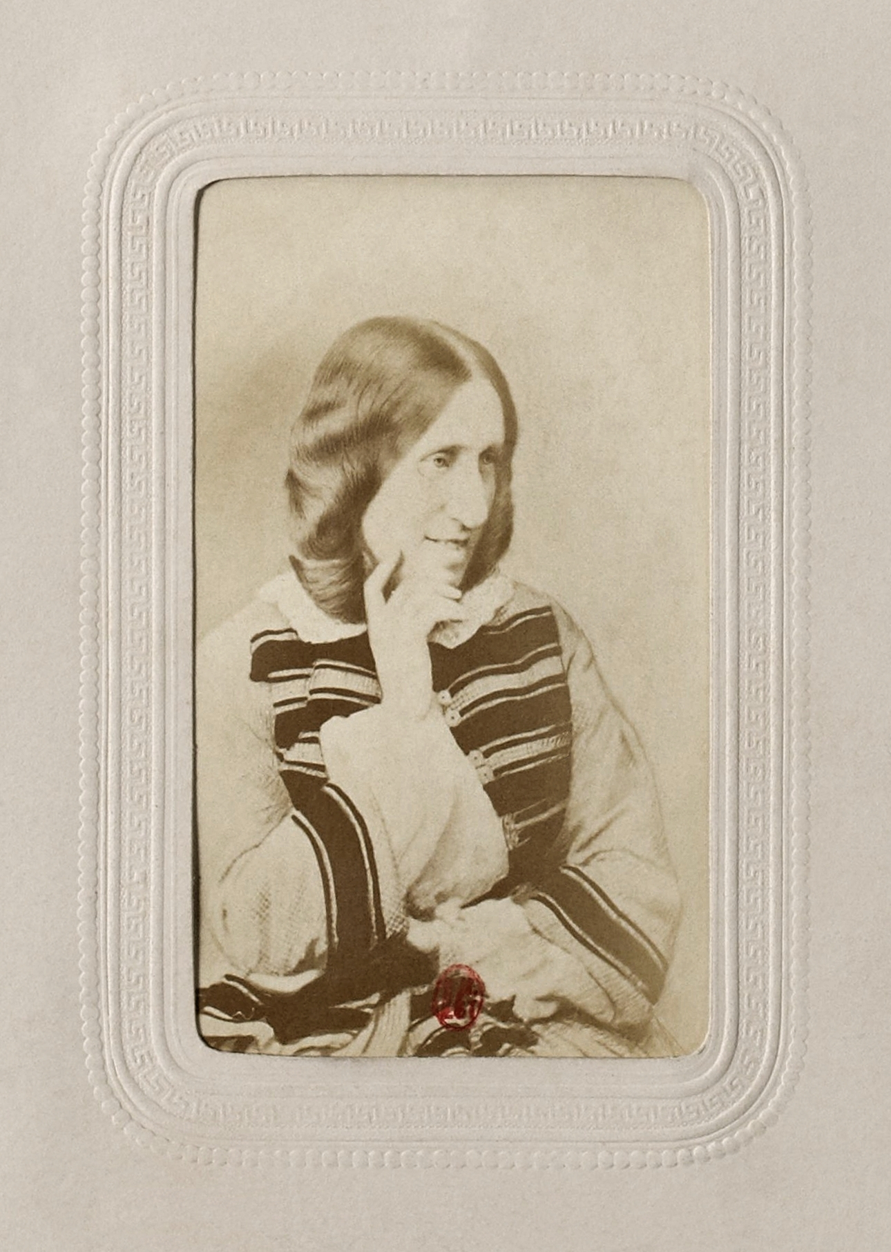 Photographic portrait (albumen print) of George Eliot (Mary Anne Evans, 1819-1880), british novellist.